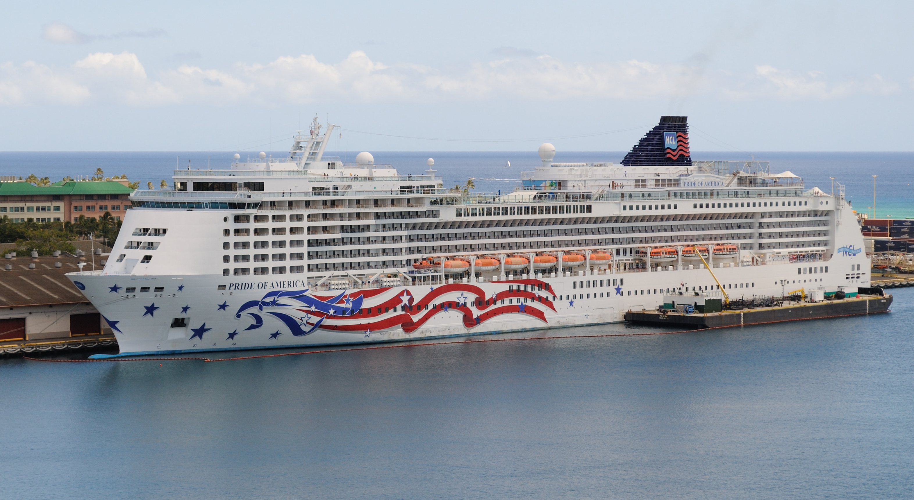 Pride of America seen from Aloha Tower